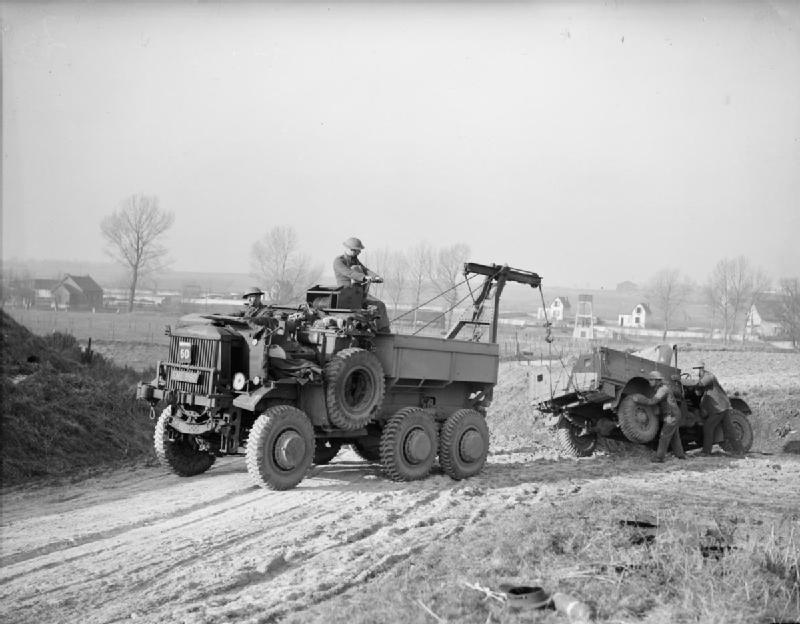 The British Army in France 1939-40 A Morris 15cwt truck being winched from a ditch by a FWD R6T (AEC 850) recovery tractor, December 1939.